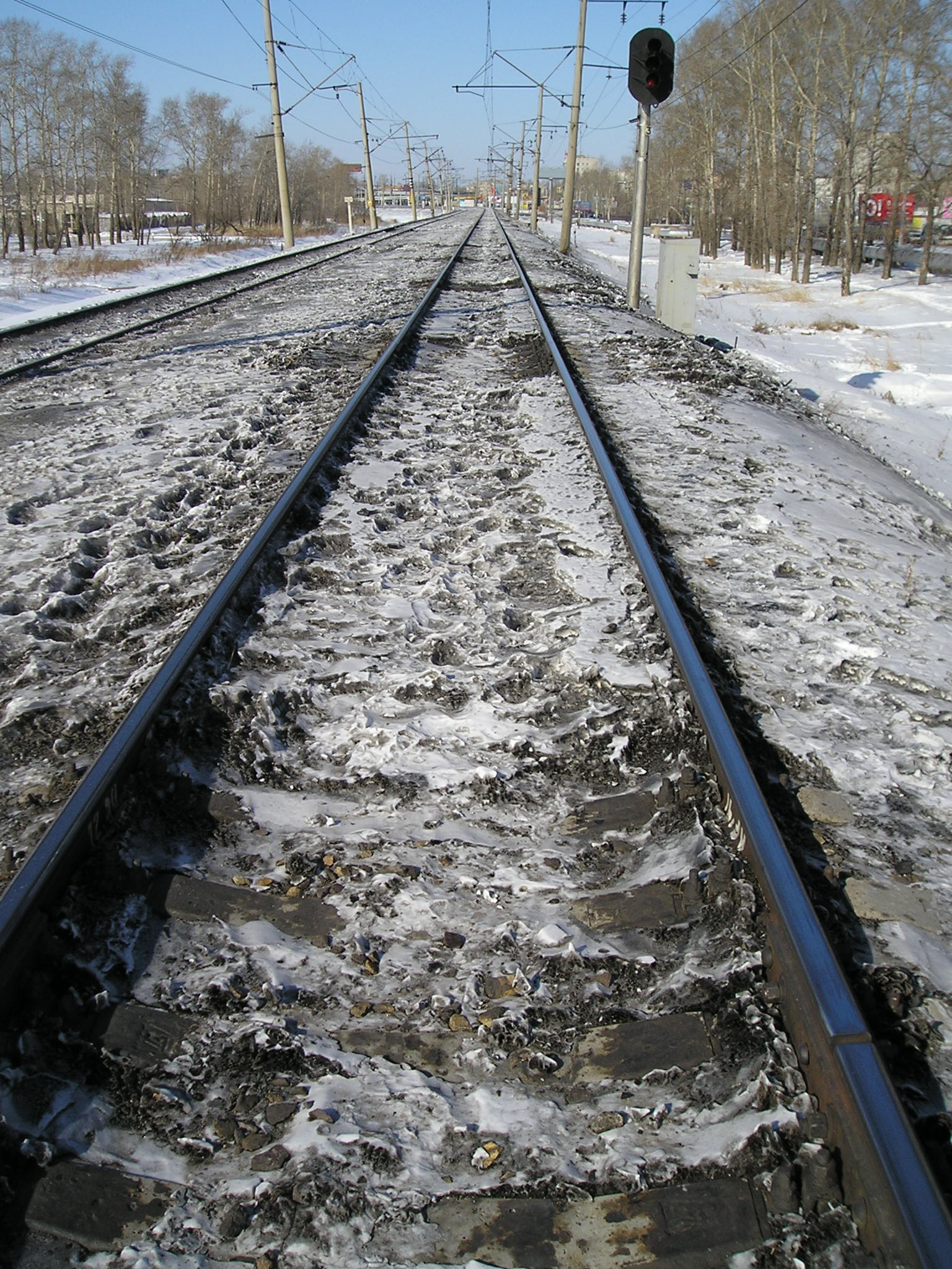 Continuous welded rail track